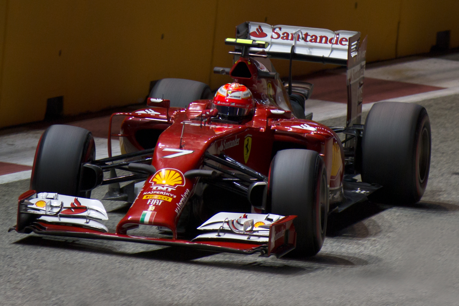 Formula One 2014 Rd.14 Singapore GP: Kimi Räikkönen (Ferrari)